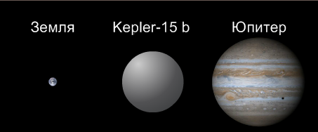 Comparative sizes of Earth, Kepler-15 b and Jupiter.